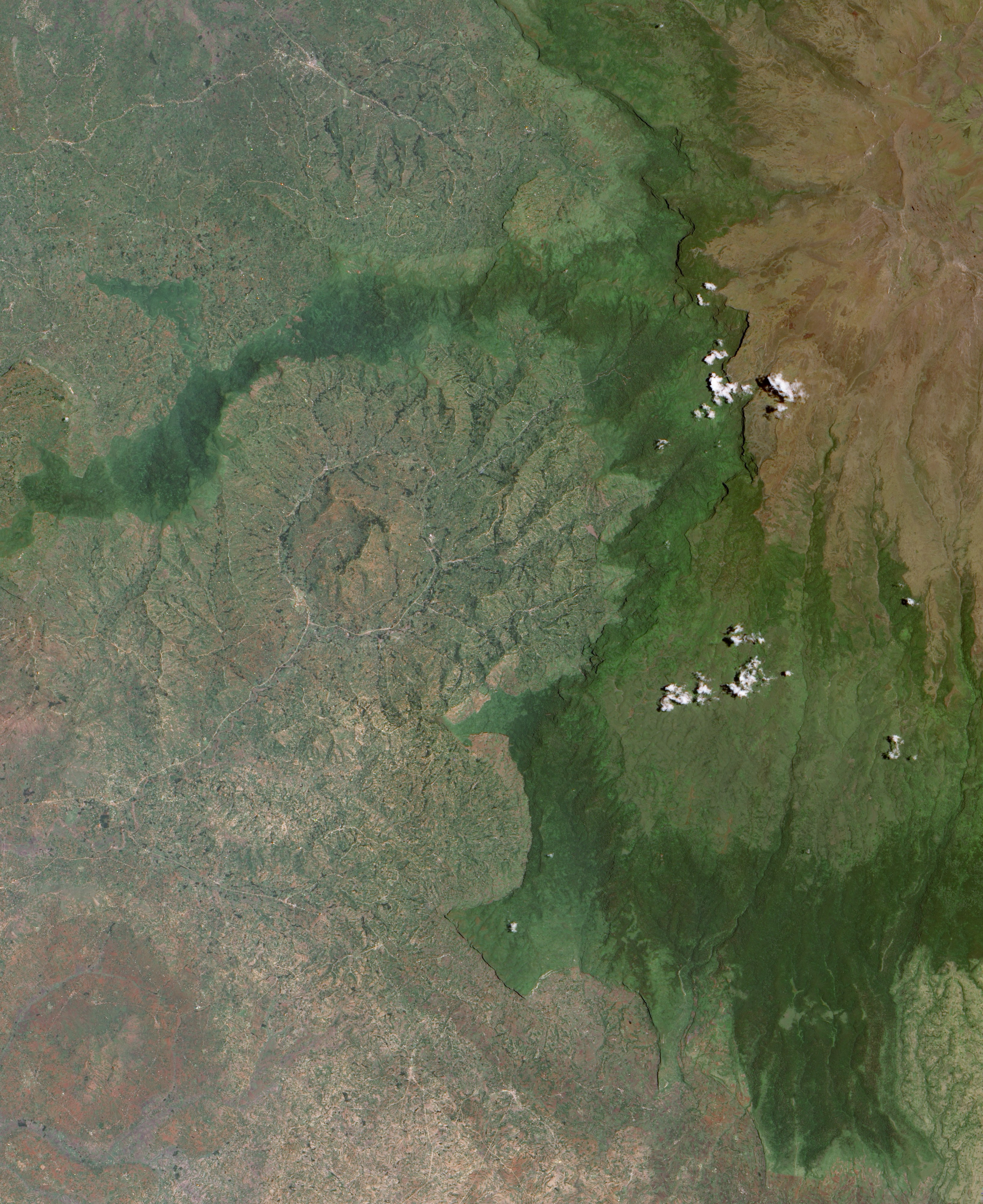 Heavy rains triggered these landslides on the steep slopes of Mt. Elgon in Uganda. The newly exposed earth is slightly pink, raw compared to other patches of bare ground, which are lighter brown. As the older scars hint, landslides are common in the region, but the new landslides are much larger than previous slides. This natural-colour image provides clues that the landslide area had been populated. Bright roofs reflect light extremely well. Tiny white dots scattered across the western slopes of Mt. Elgon are probably structures. Several structures surround the slides. Heavy rain caused the slides, but deforestation may have also played a role, said the Ugandan government. Dark green forest grows on the slope above the slide area. A strip of pale green land, free of settlements, separates the forest from the slide.